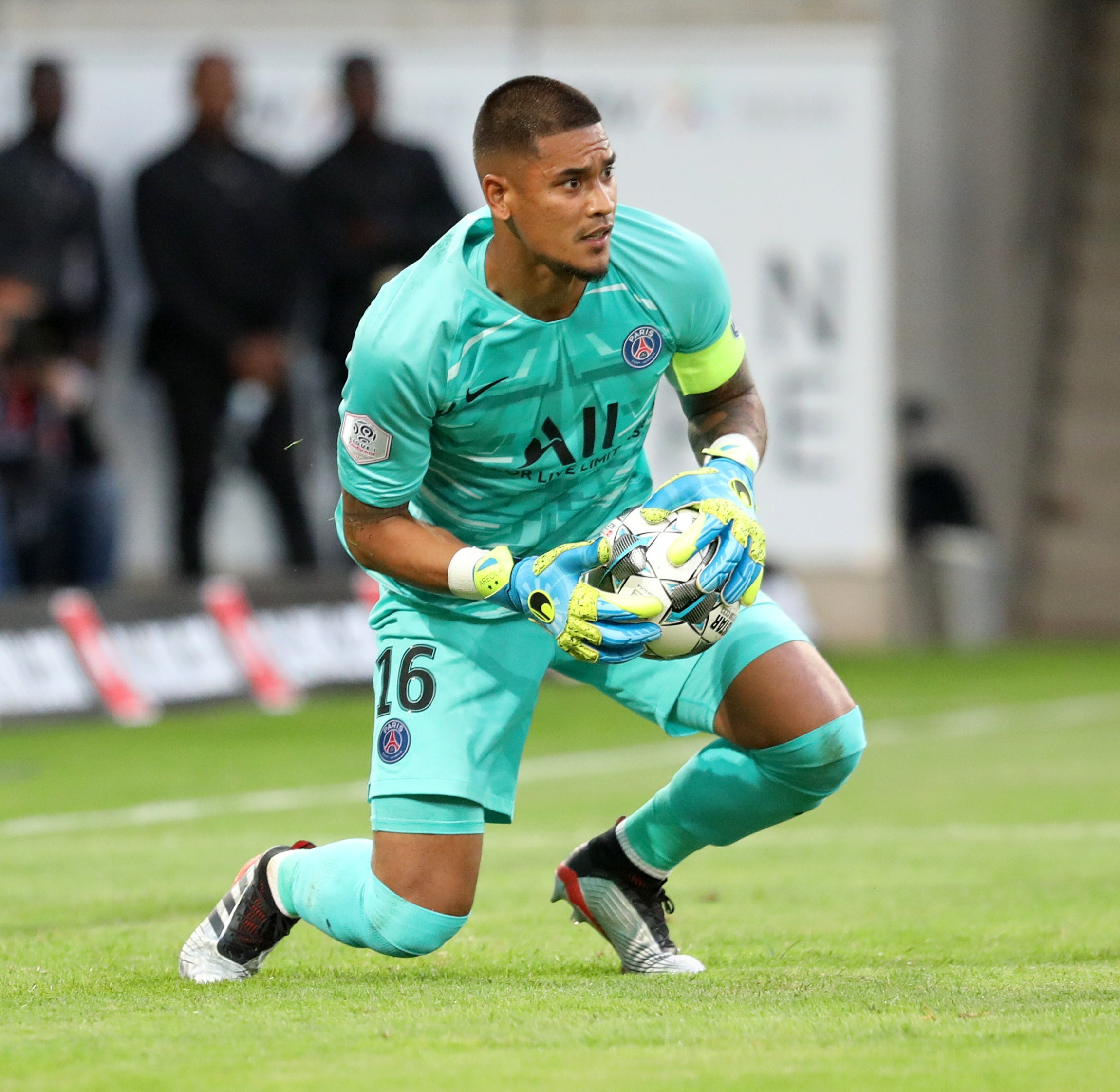 Test game, 17th July 2019: SG Dynamo Dresden vs. Paris Saint-Germain 1:6 (0:3)